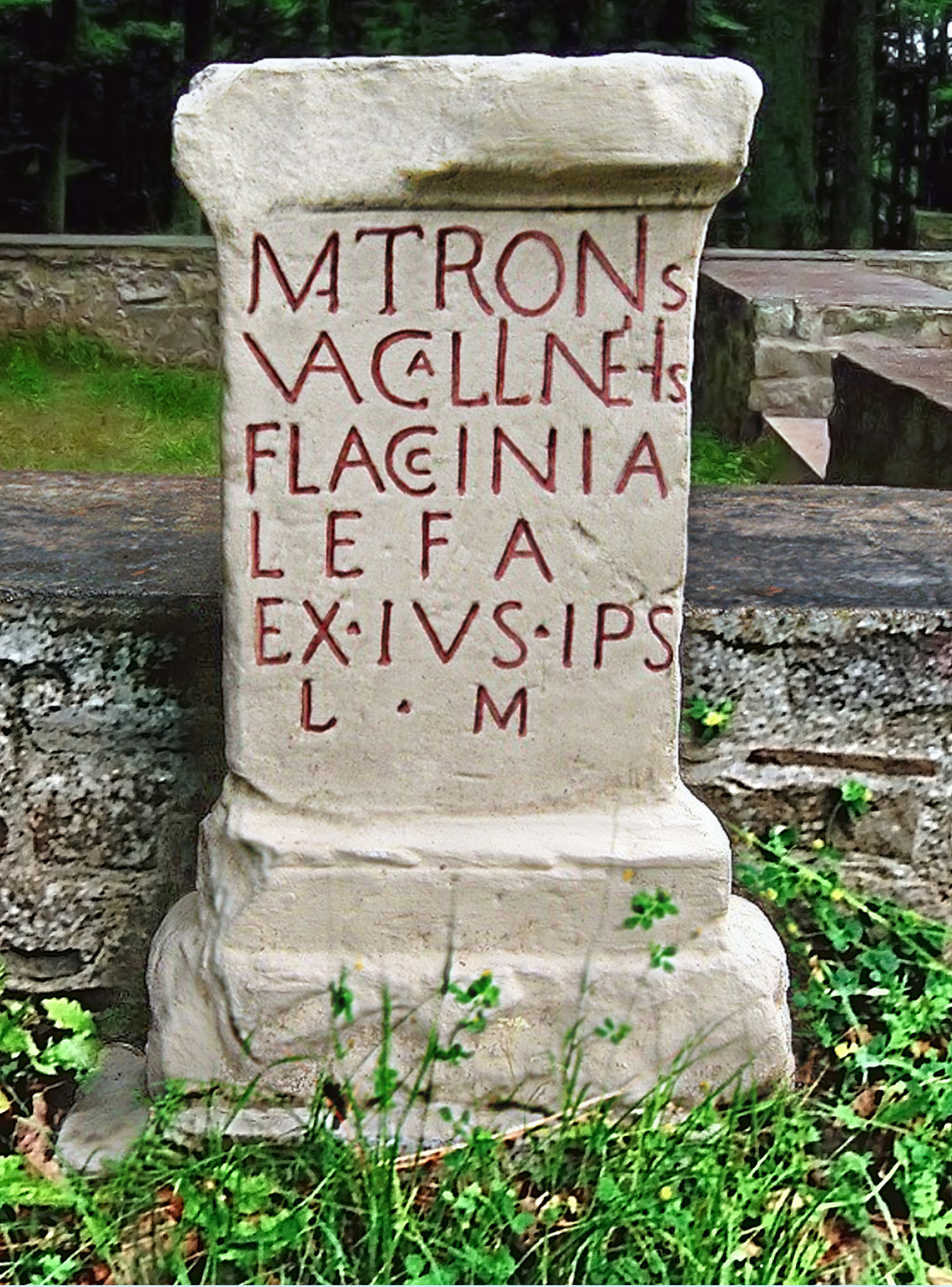 Gallo-Roman-Germanic Matres and Matrones: Replica of an altar for the Mothers of Vacallinia (Matronae Vacallinehae) from Nettersheim, North Rhine-Westphalia, Germany (CIL XIII, 12024 = ER-03-10, 00008 = Lehner 00348 = AE 1920, 00005 = AE 1921, [p. 16 s. n. 50], +00050. Germania inferior / Pesch / Colonia Claudia Ara Agrippinensium). Same Object